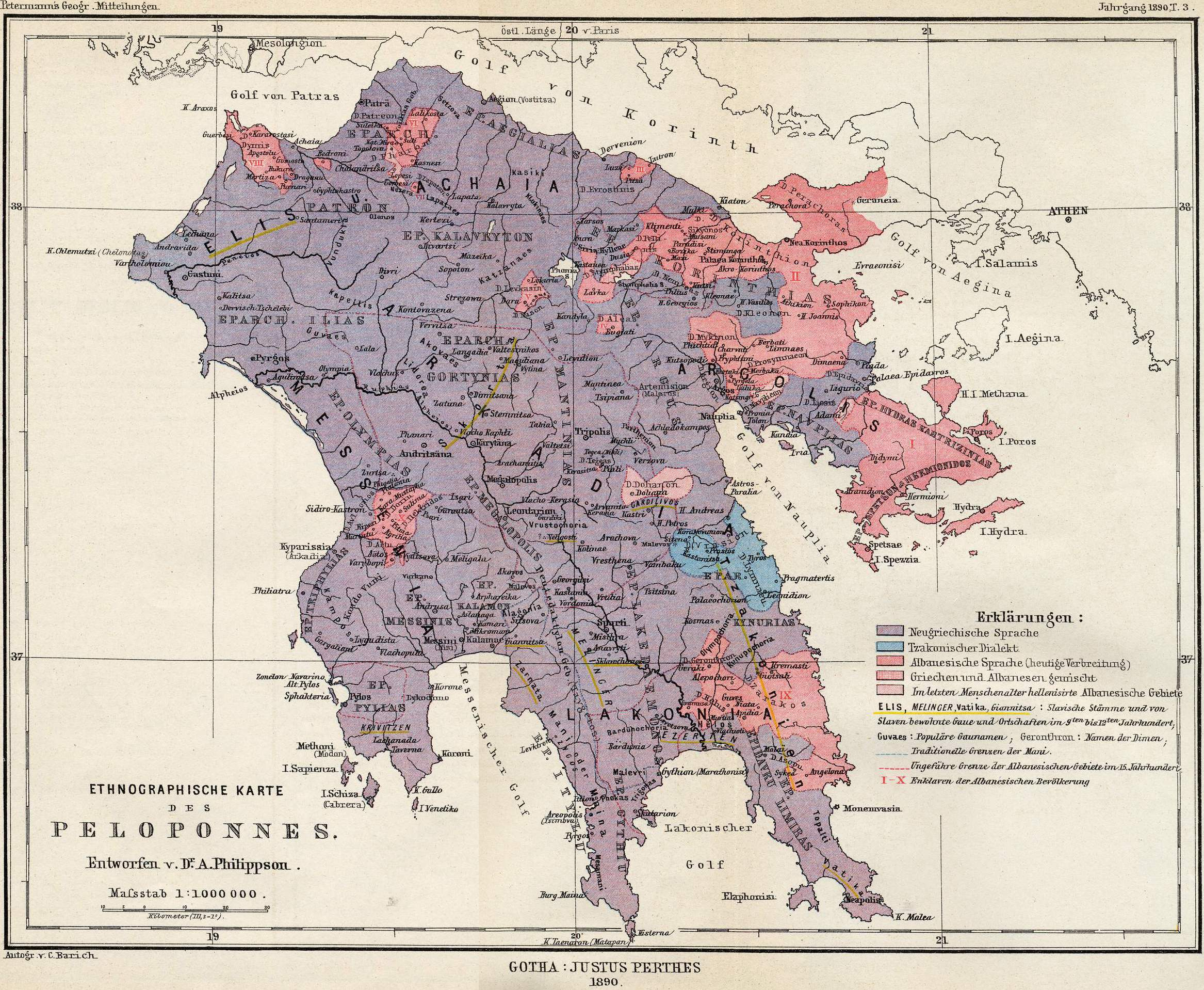 Old ethnic map of the Pelopones peninsula, by Alfred Philippson